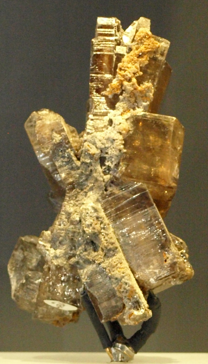 An example of the mineral Phosgenite on display in the Vale Inco Limited Gallery of Minerals at the Royal Ontario Museum.